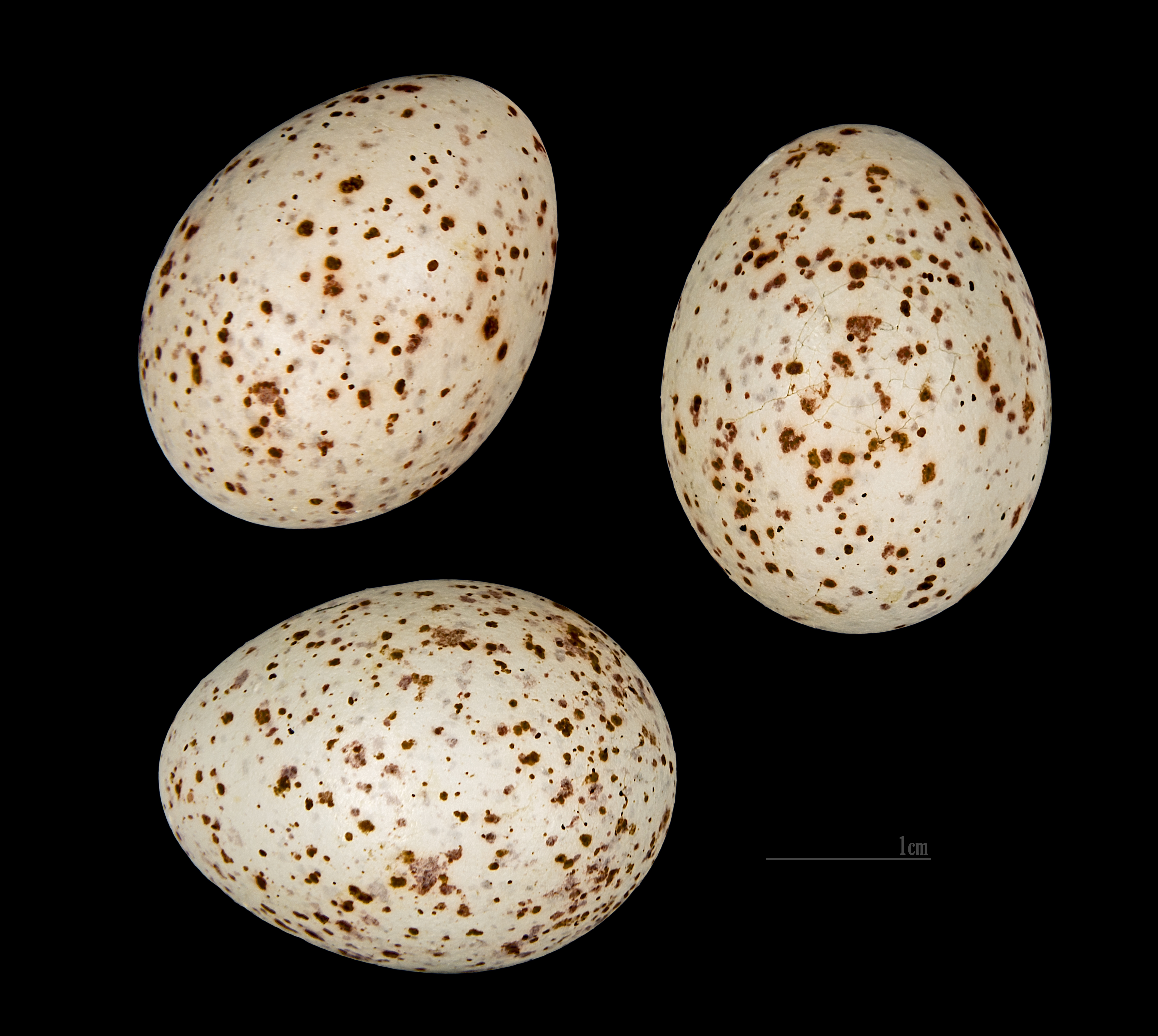 Egg of Mistle Thrush. Collection of Jacques Perrin de Brichambaut.